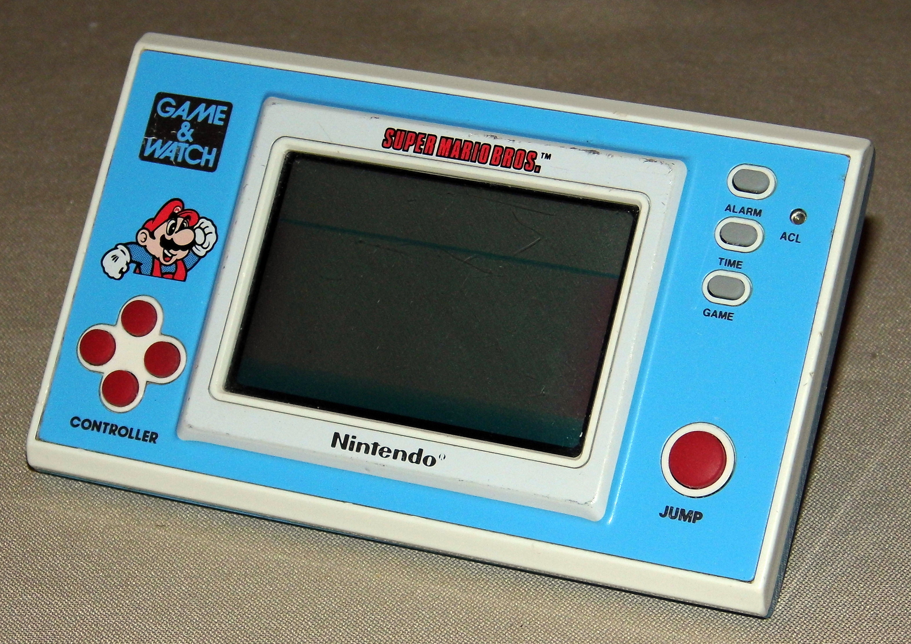 Vintage Super Mario Bros. Handheld Electronic Game & Watch By Nintendo, Model YM-105, Made In Japan, Copyright 1988 A good source of information on vintage handheld electronic games is the Electronic Handheld Game Museum .